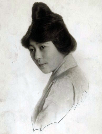 Tsuru Aoki in Kay-Bee/Broncho & Domino Productions - publicity still (cropped)